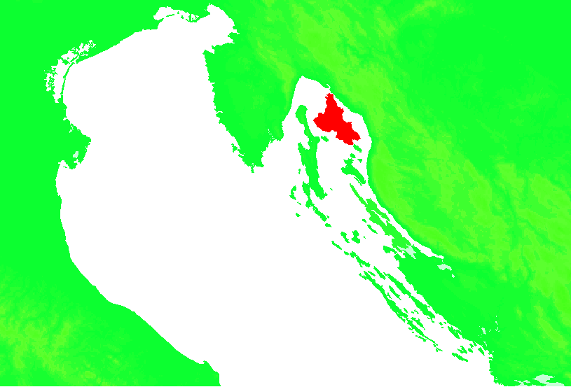 Island of Croatia Croatia - Krk.PNG